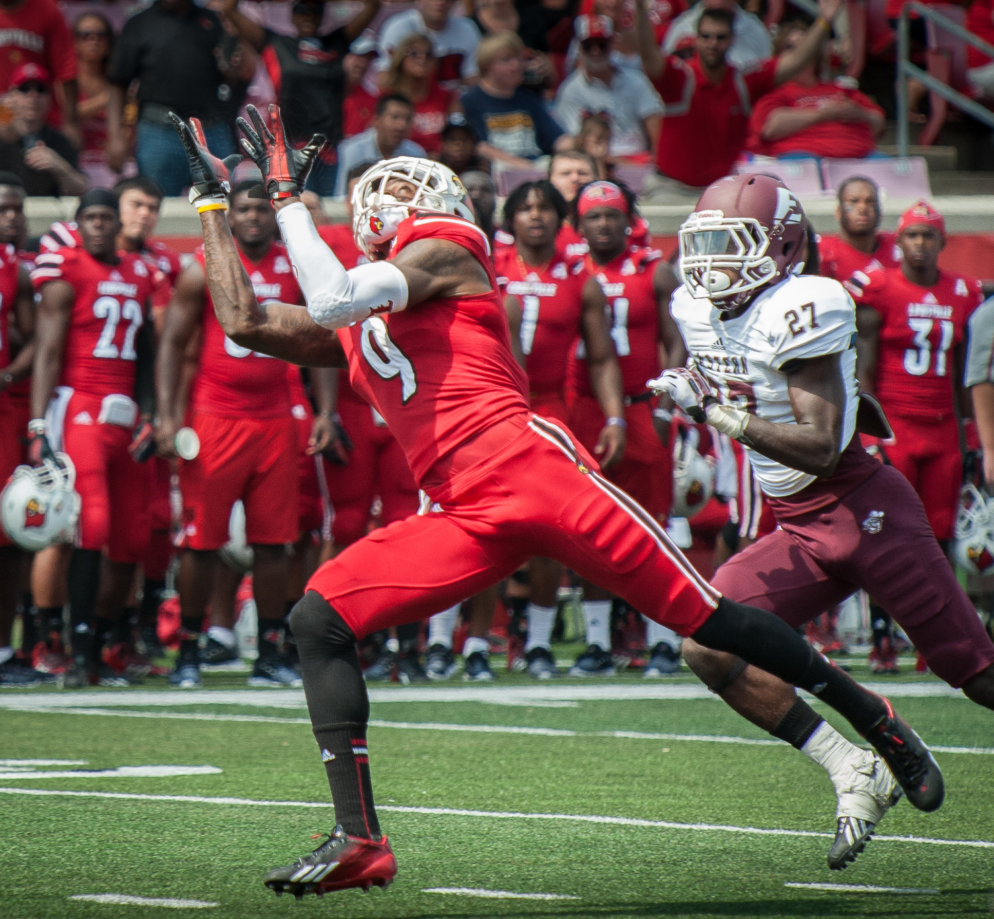 Cardinals wide receiver DeVante Parker completes a reception during the University of Louisville-Eastern Kentucky University football game at Papa John’s Cardinal Stadium in Louisville, Ky., Sept. 7, 2013. Billed as Military Appreciation Day, the game featured a number of events to highlight the exceptional service of Kentucky Air National Guardsmen. (U.S. Air National Guard photo by Maj. Dale Greer)